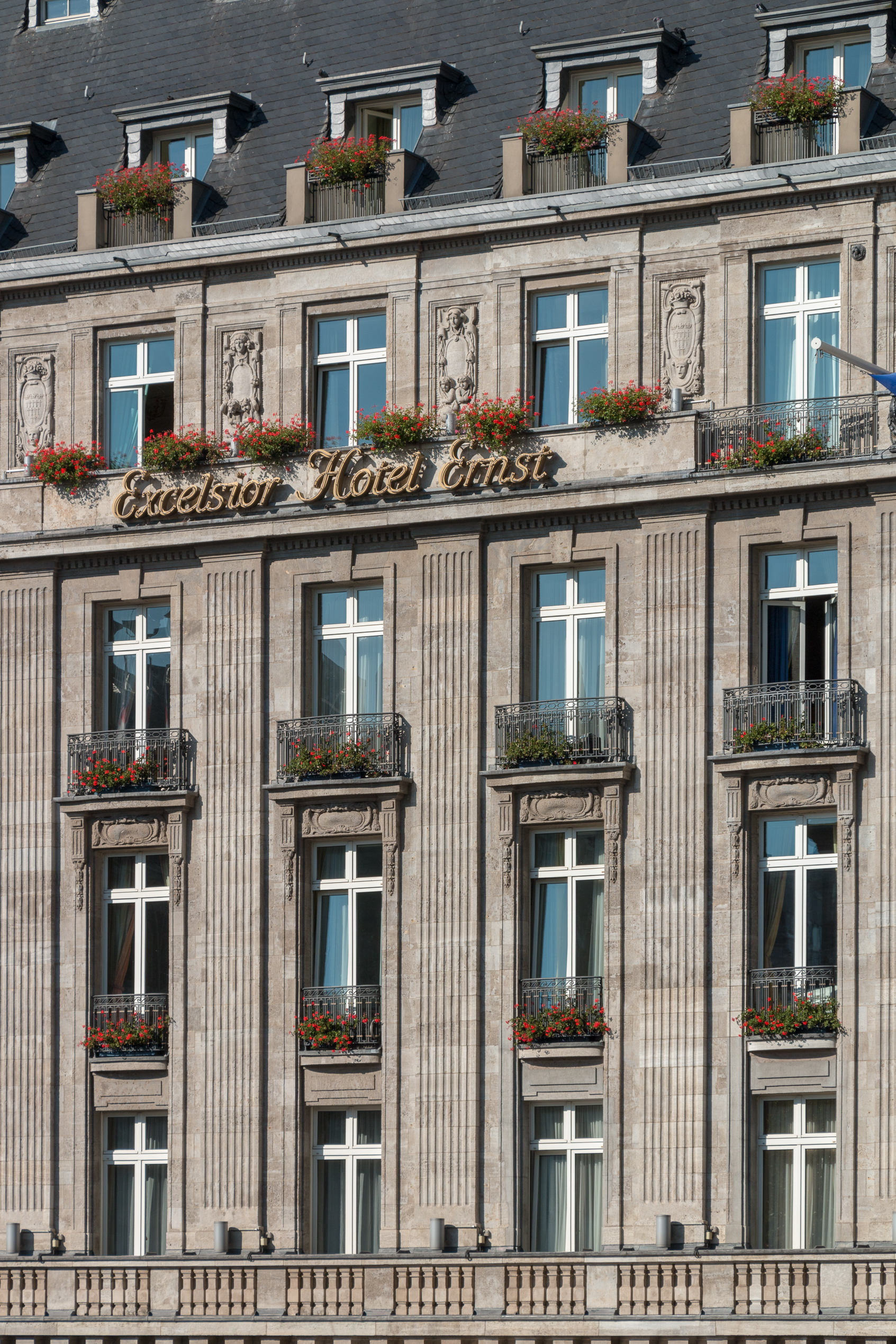 Excelsior Hotel Ernst, Cologne